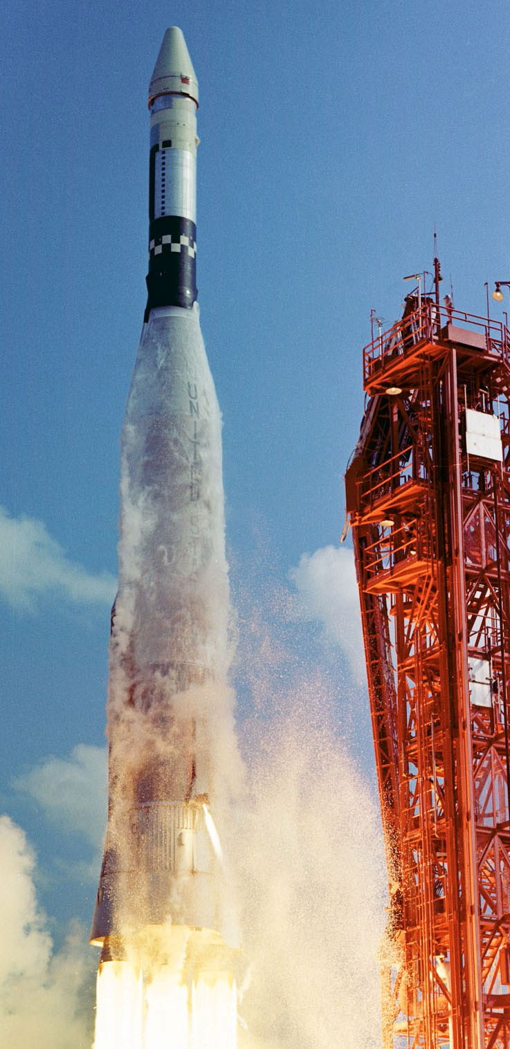 Derived from File:Atlas-Agena 6 Launch.jpg. Launch of Atlas Agena from Gemiini 6A